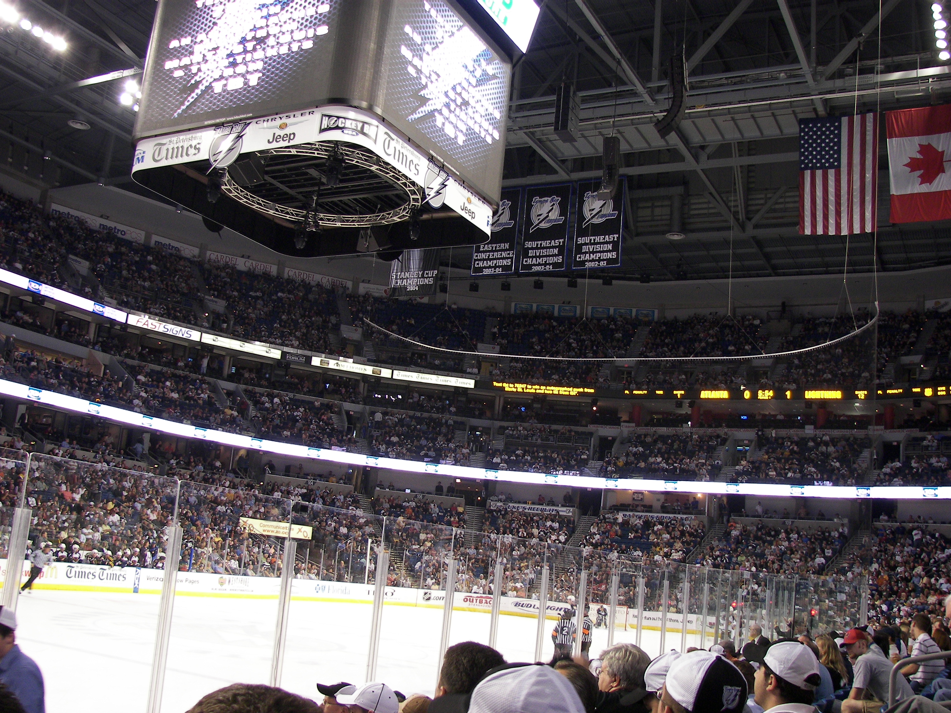 Interior of the St. Pete Times Forum in Tampa, Florida during a Tampa Bay Lightning vs. Atlanta Thrashers ice hockey game on October 20, 2007.